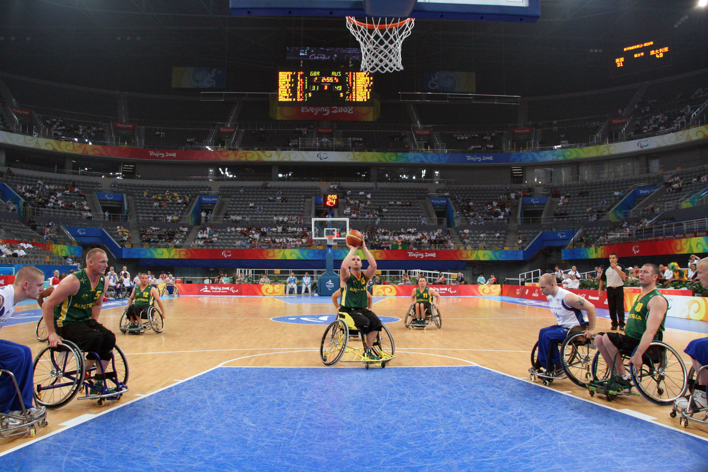 Australian basketballer Brad Ness shoots a free throw at the Beijing 2008 Paralympic Games